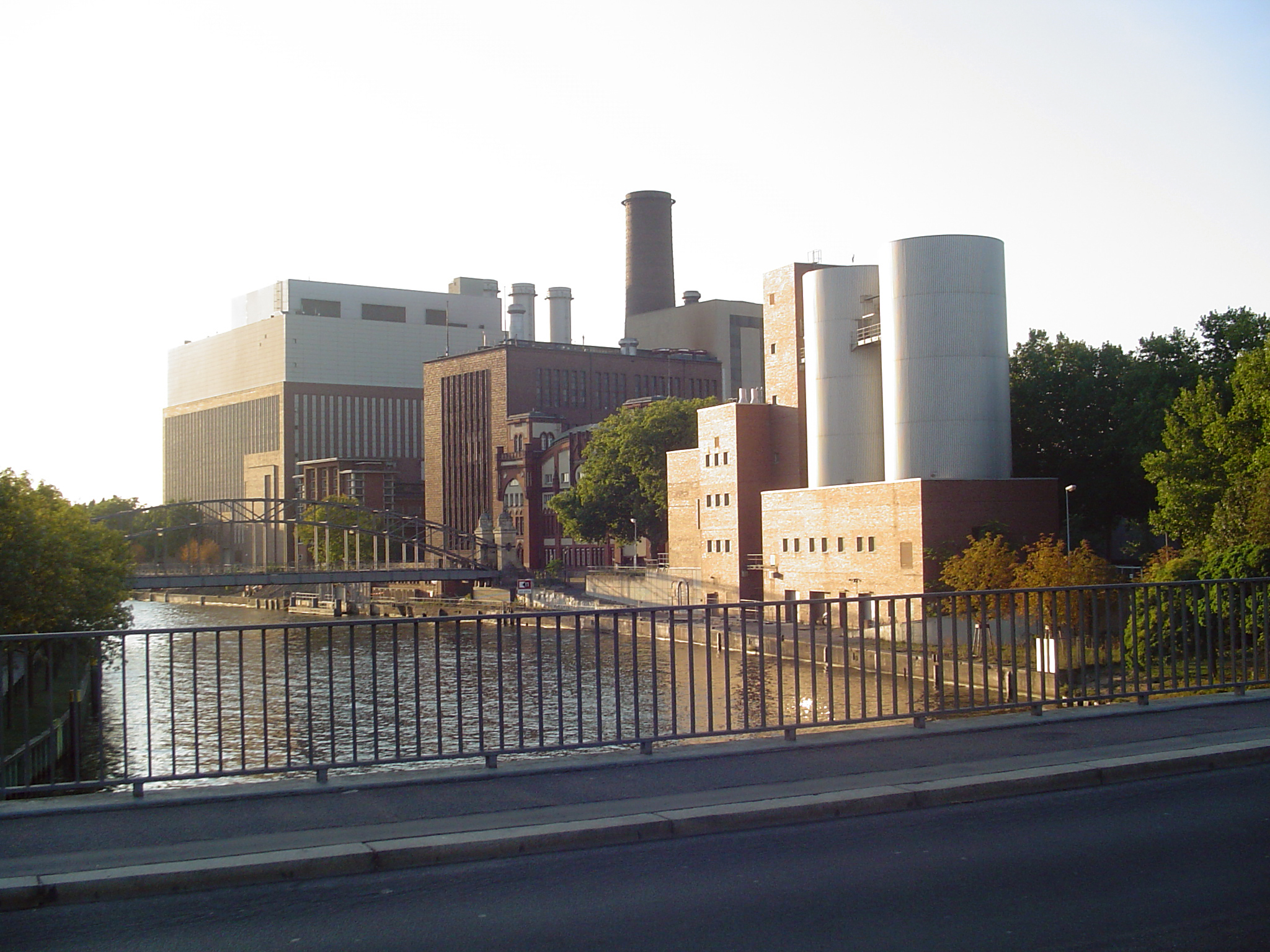 powerplant in Berlin-Charlottenburg operated by Vattenfall, in the foreground are buildings related to fumes gas cleaning